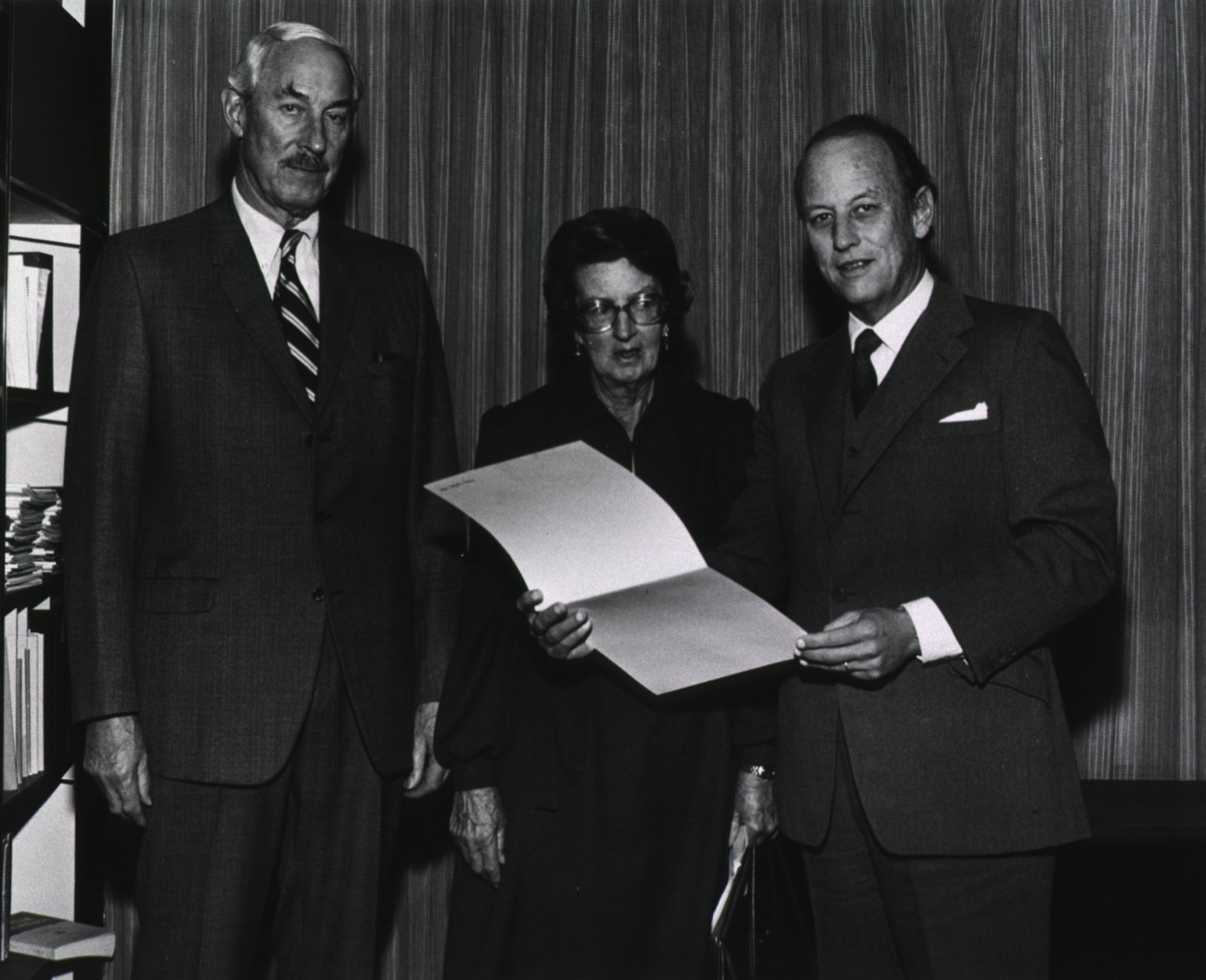 John Eberhardt (left), Mary Leakey (center), and Donald S. Fredrickson (right) at Mary Leakey's early man lecture.